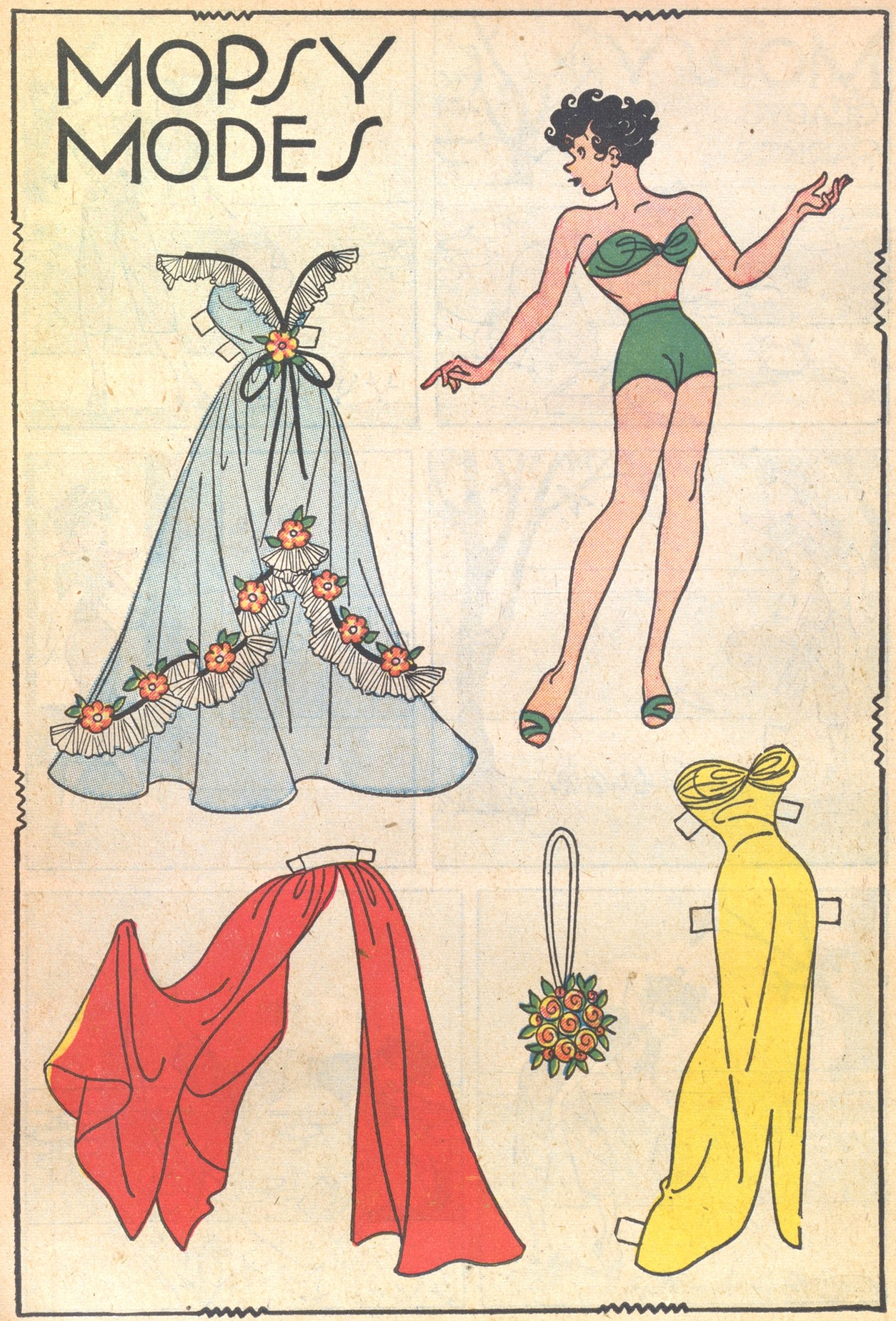 Mopsy Modes paper doll published in Mopsy, Vol. 1, No. 18